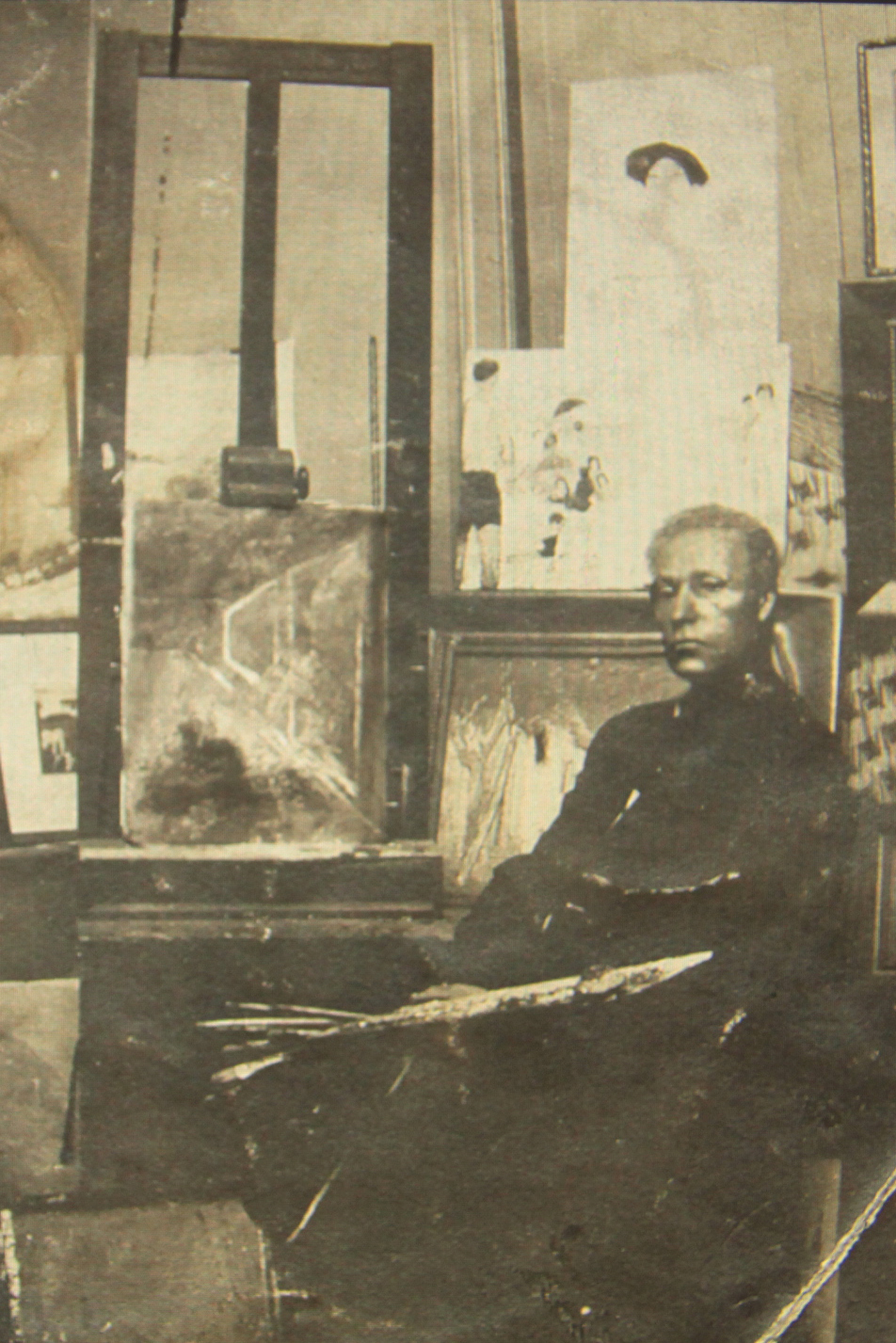 Leonid Isaakovich Vail in Zurich Studio c.1917